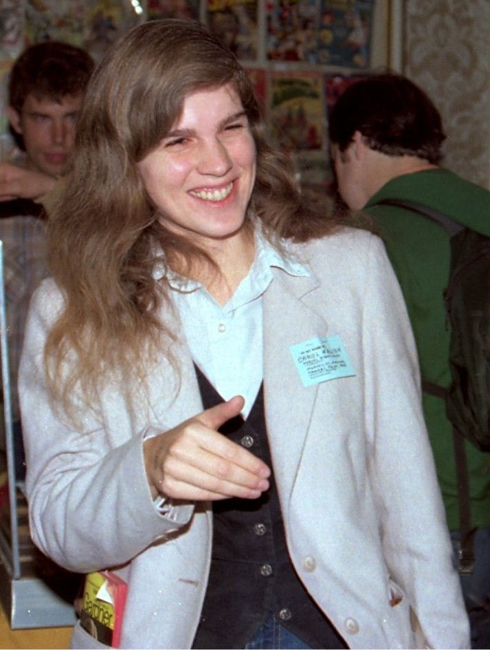 Carol Kalish talking to Cat Yronwode at the October, 1982 Minneapolis Comic-Con.